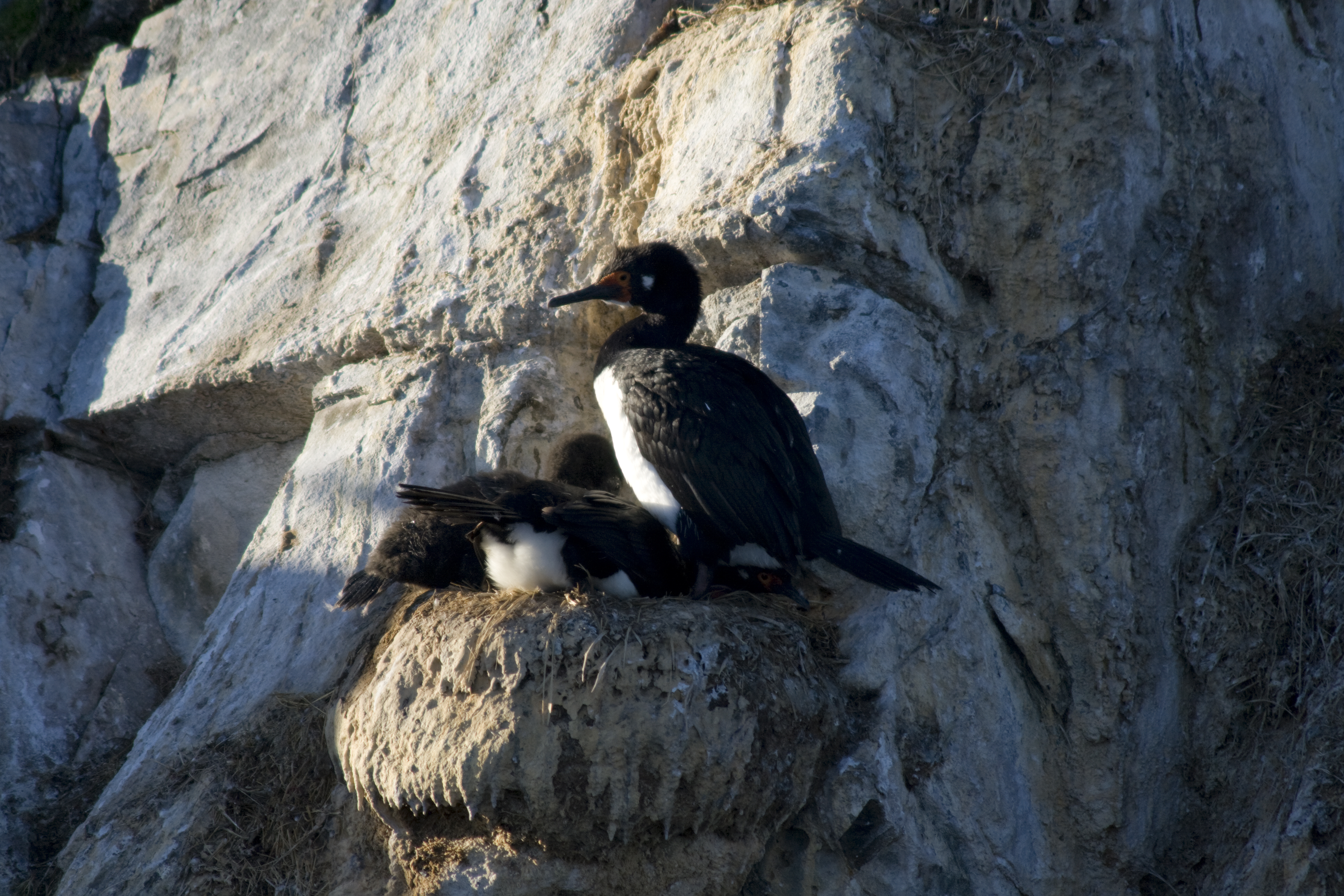 Rock Shag (Phalacrocorax magellanicus)